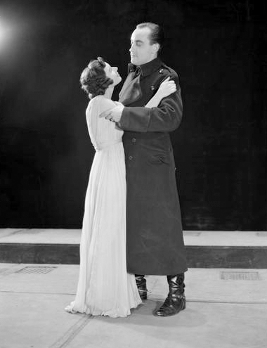 Promotional photograph of the Mercury Theatre production of Caesar, featuring (from left) Evelyn Allen as Calpurnia and Joseph Holland as Julius Caesar Caption reads as follows:Caesar's ghost is fascist in new presentation of Shakespeare's immortal play, presented by New York's Mercury Players in modern dress with modern implications. "You shall not stir out of your house today," Calpurnia (Evelyn Allen) tells Julius Caesar (Joseph Holland), who strongly resembles Mussolini. Lights are the only scenery used in this widely discussed production, directed by youthful Orson Welles.